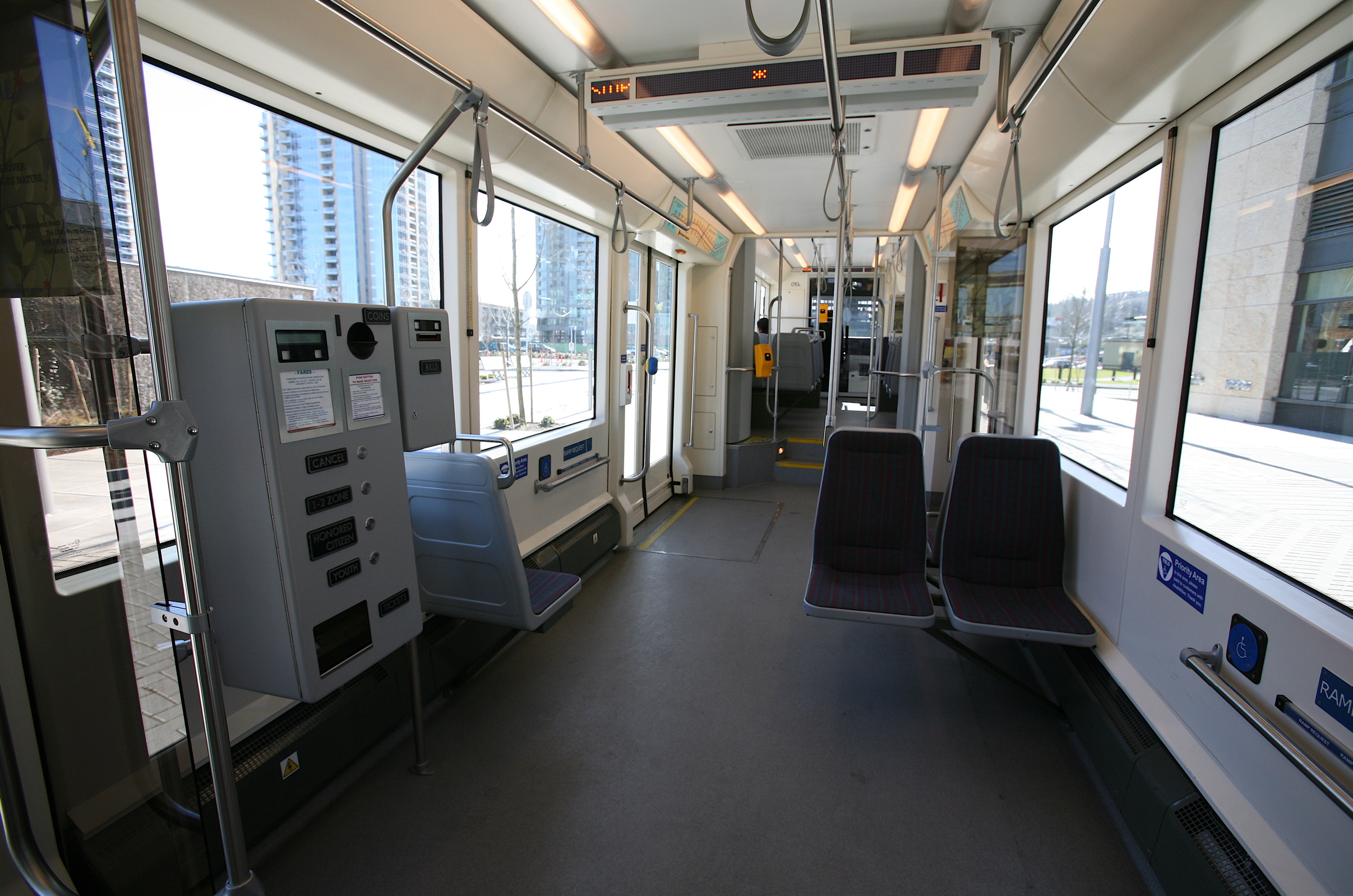 The interior of a Portland Streetcar.